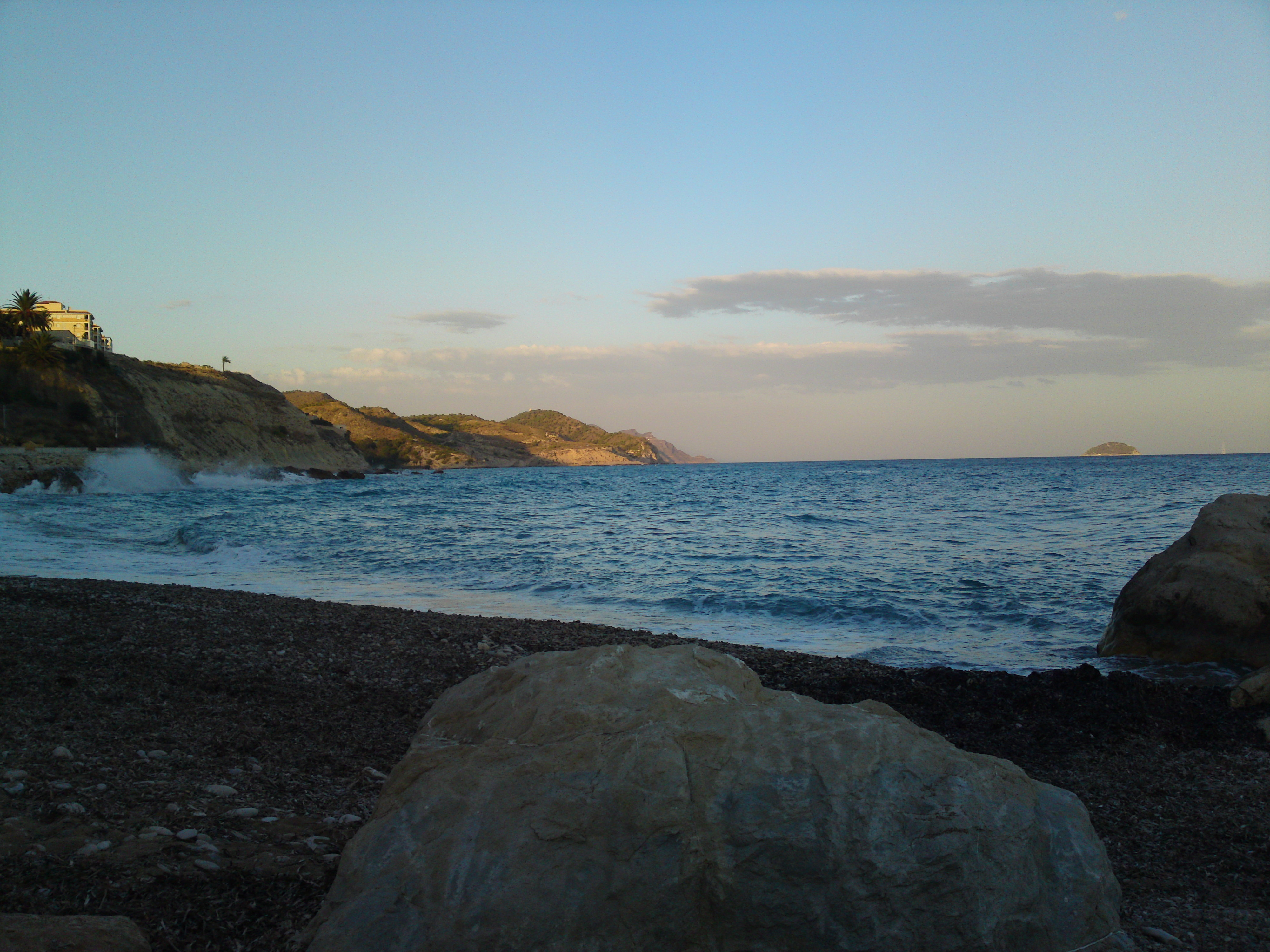 La Playa de los Estudiantes, Villajoyosa